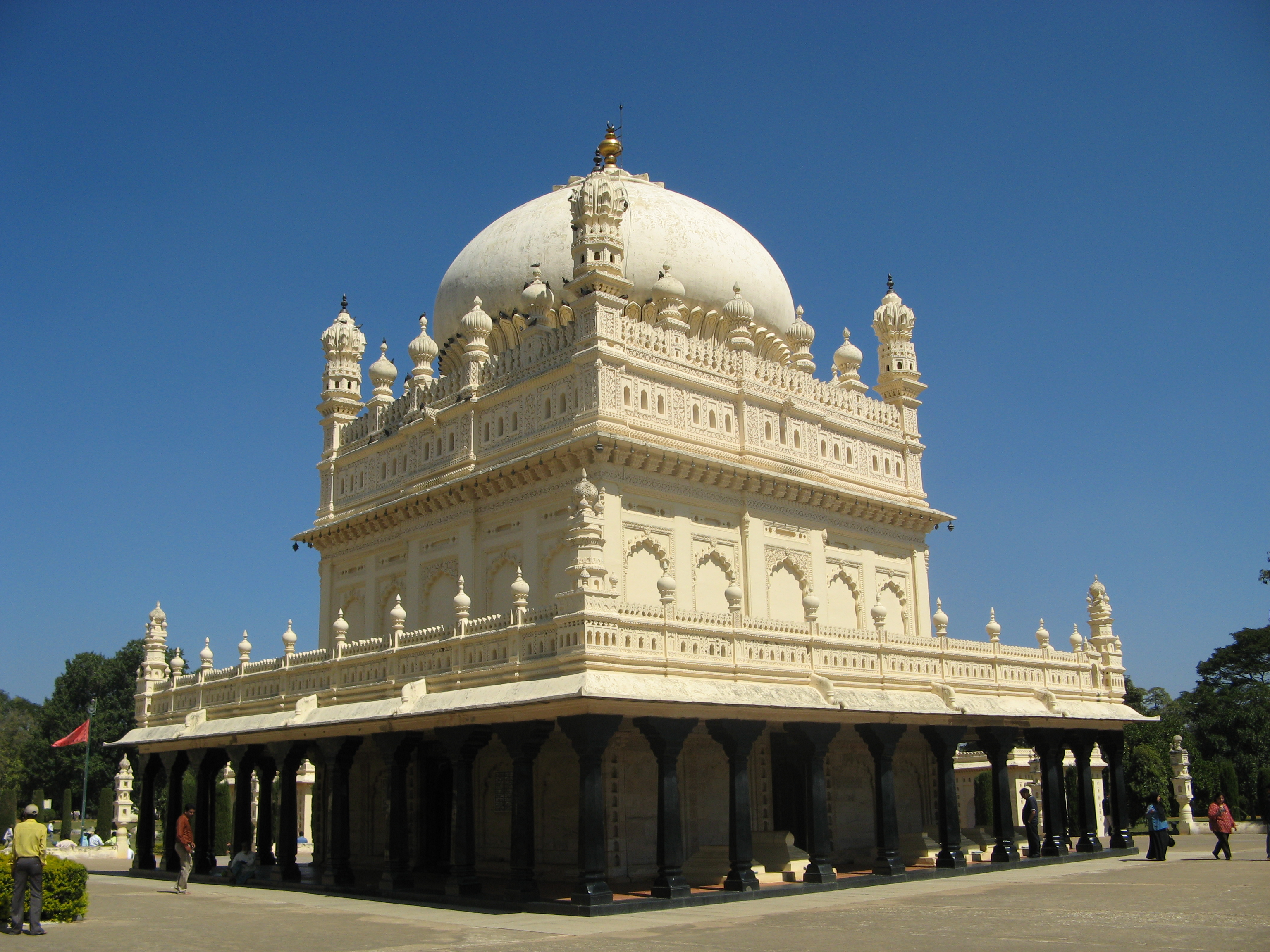 The Mausoleum Of Tipu Sultan.